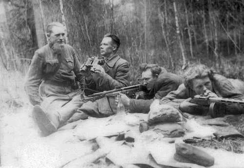 Kretinga district partisans